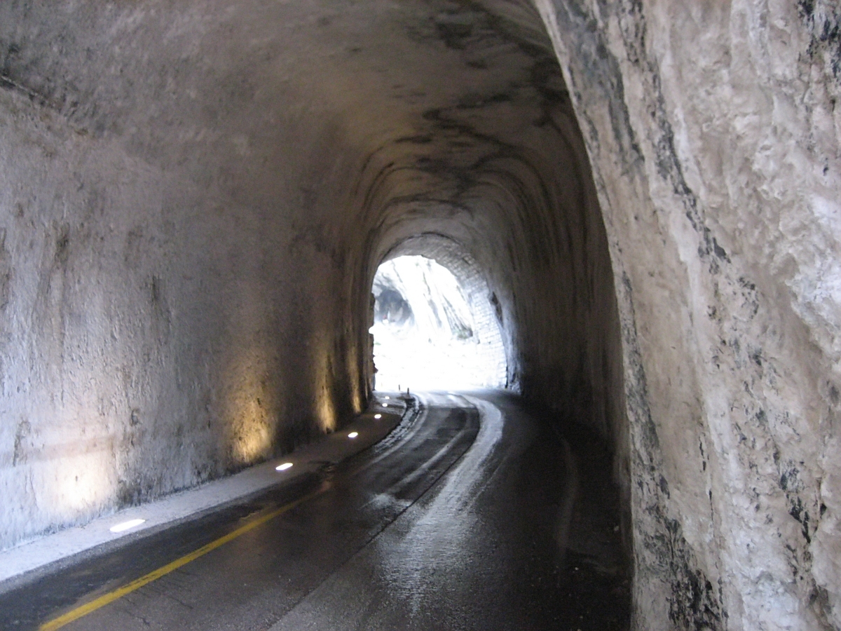 Inside the Furlo tunnel in the course of the Via Flaminia Antica near Fossombrone in Marche in Italy.